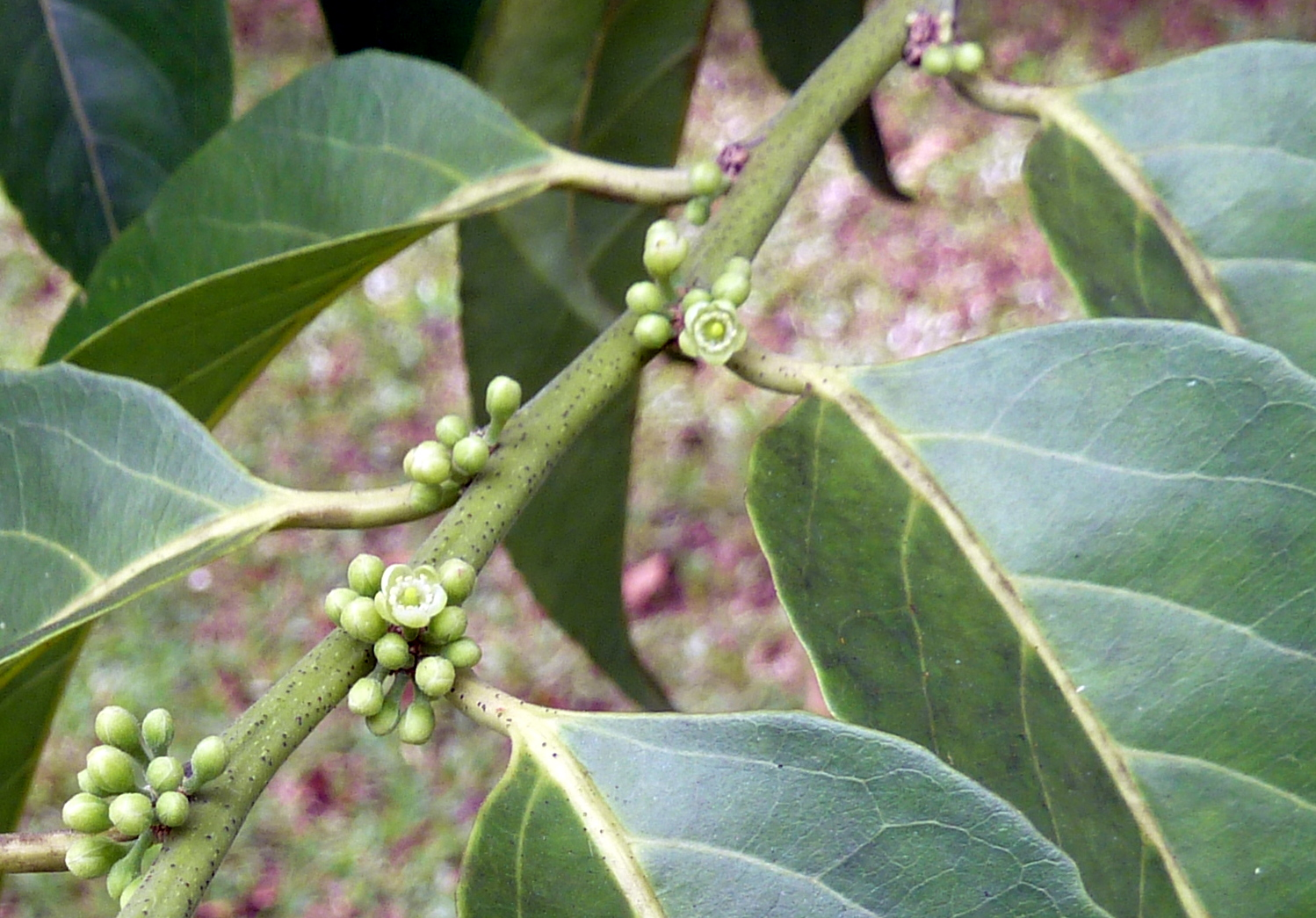 Palaquium merrillii flowers at Ho'omaluhia Botanical Garden in Kaneohe, Hawaii